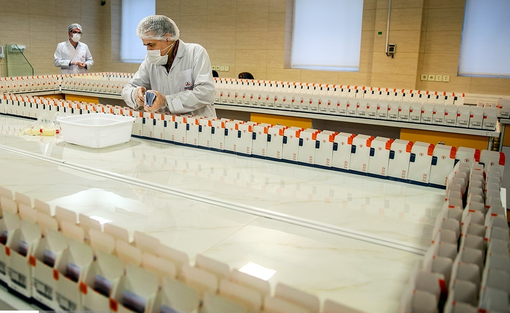 Launching Corona Detection Kit Production Line in Iran, With a weekly production capacity of 80,000 kits.